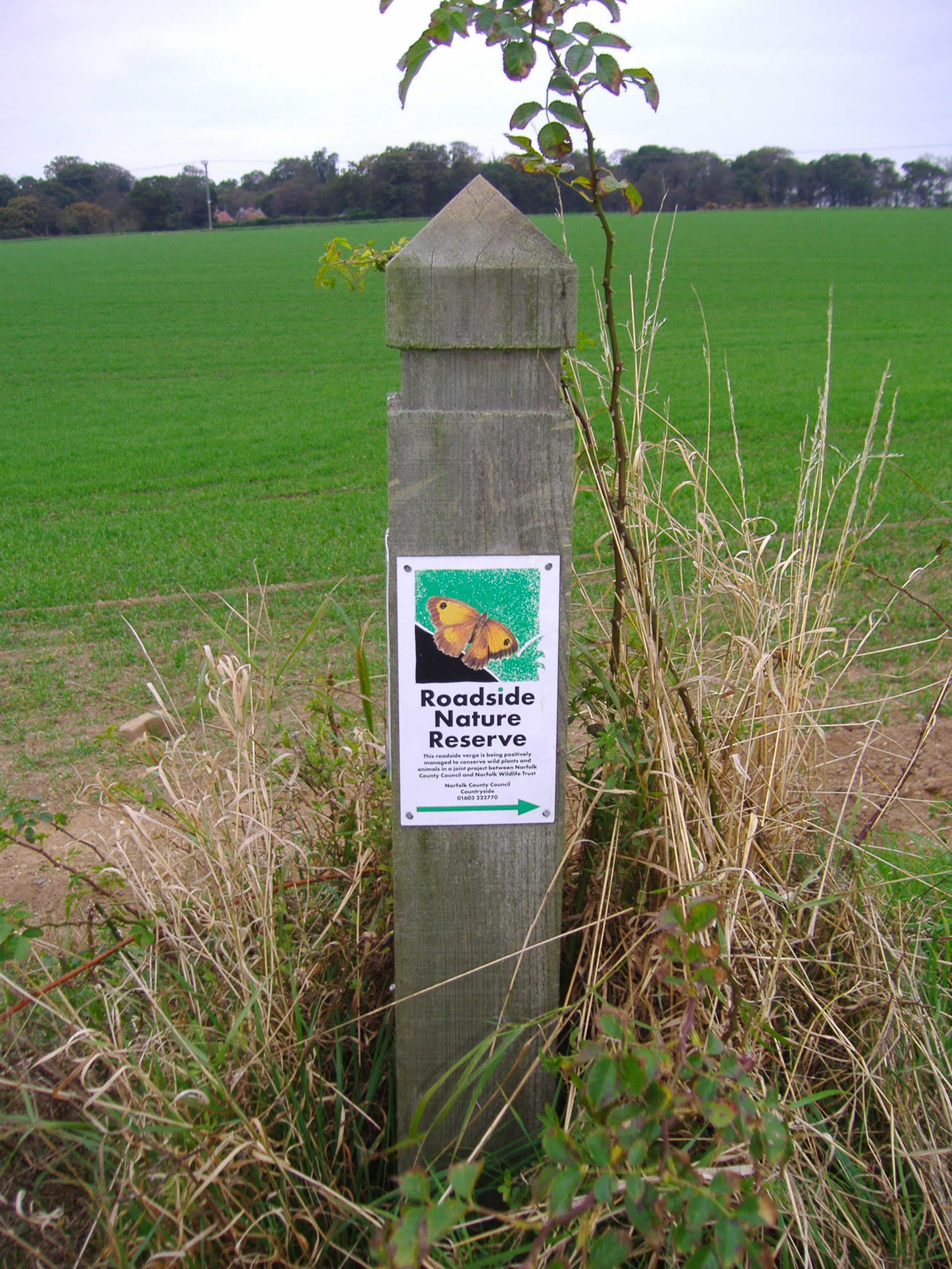 A Digital Photograph of the Marker Post for Roadside reserve Taken on the 25th October 2007 by stavros1